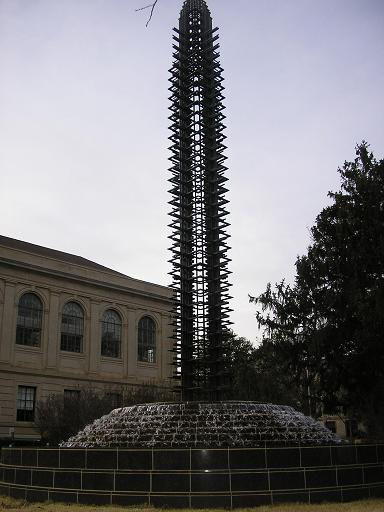 Fountain in front of Vol Walker Hall and behind Old Main on the campus of the University of Arkansas.